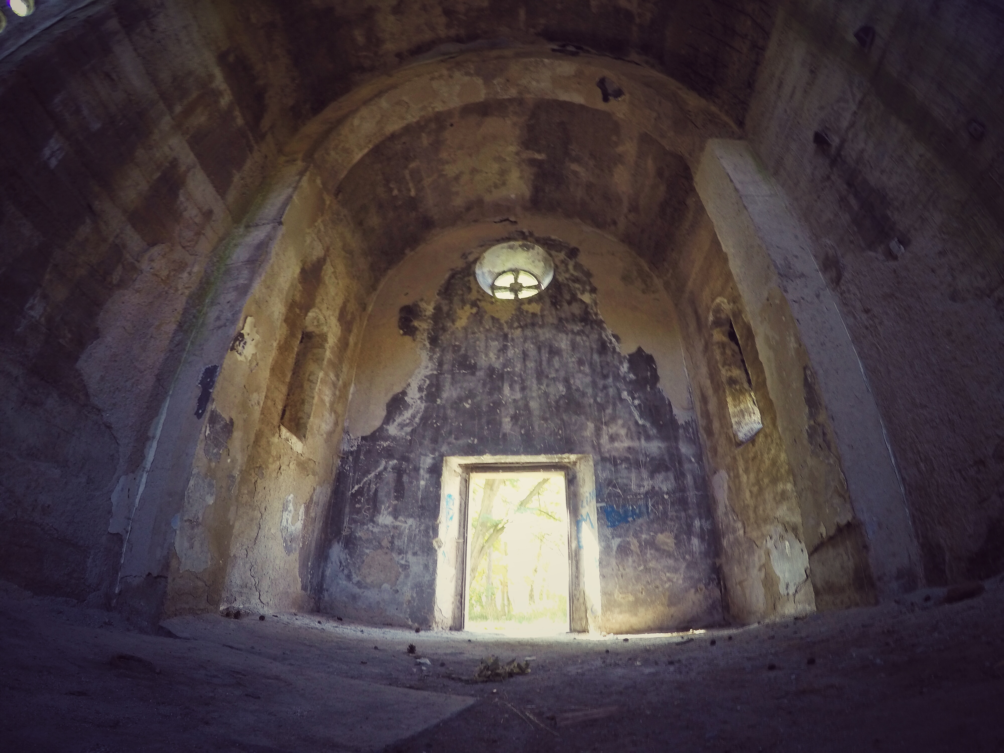 Monuments and archaeological pieces serve as testimonies of man's greatness and establish a dialogue between civilizations showing the extent to which human beings are linked.